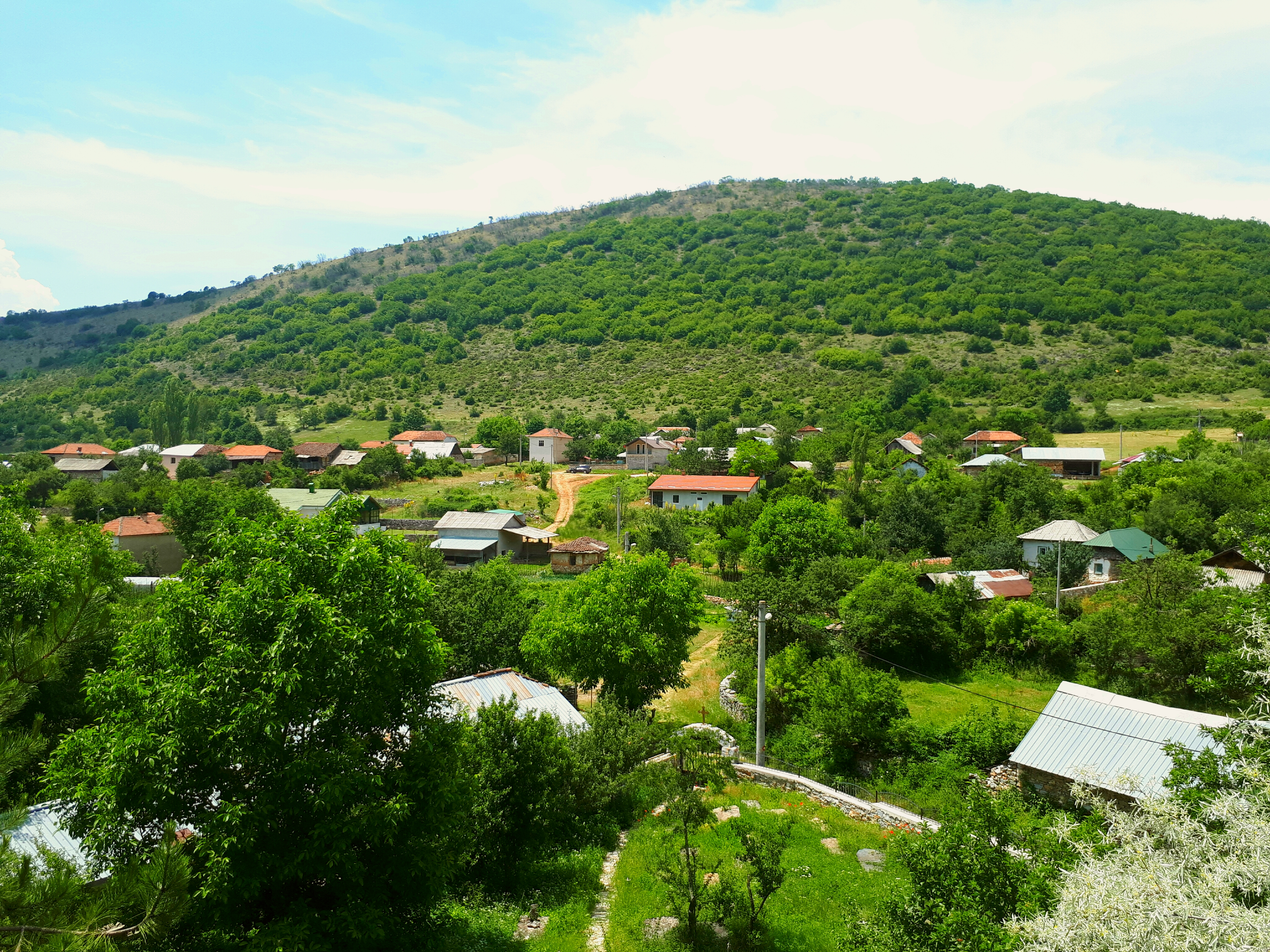 View of the village Krapa